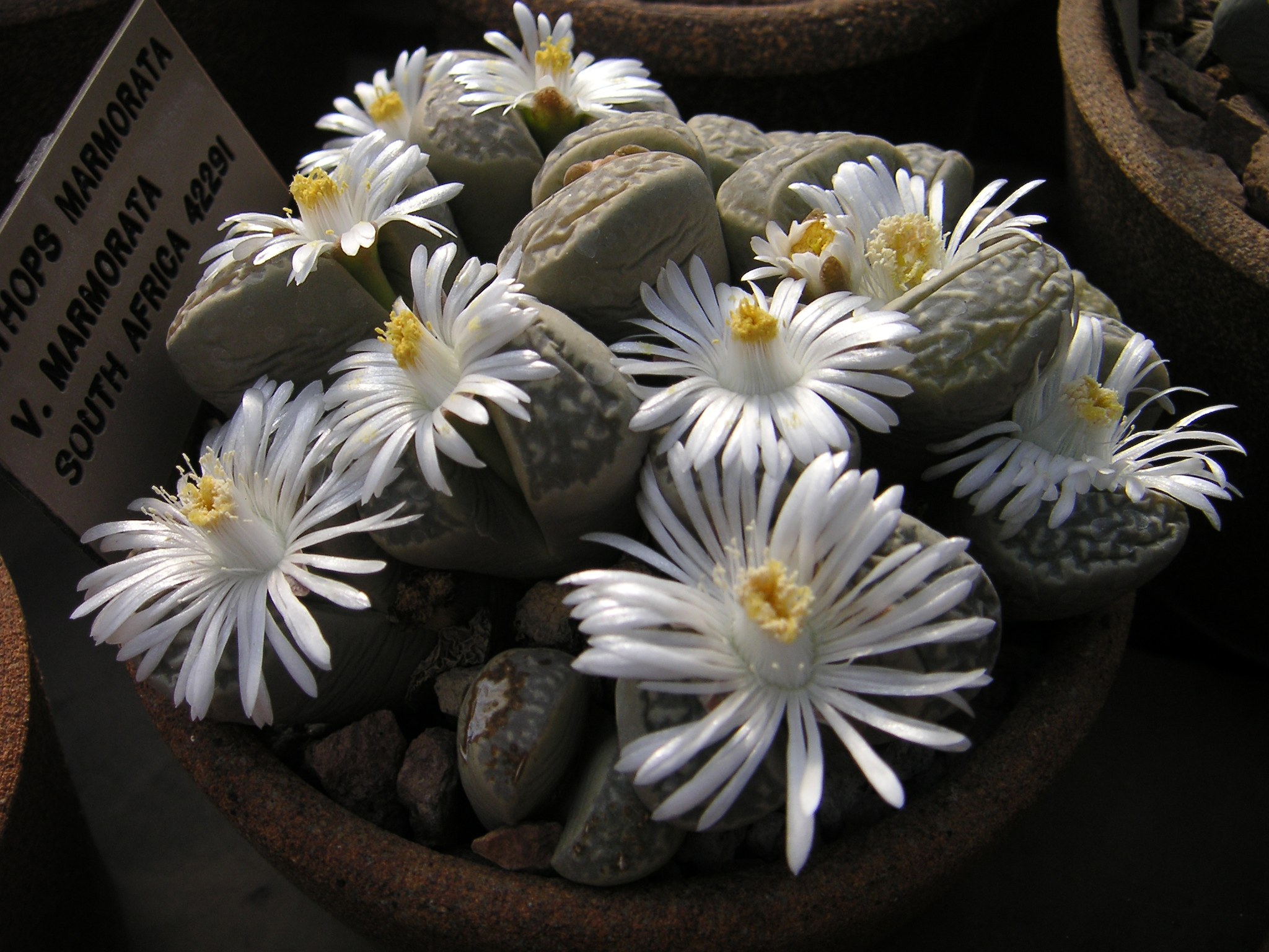 Lithops marmorata-ssp.-marm